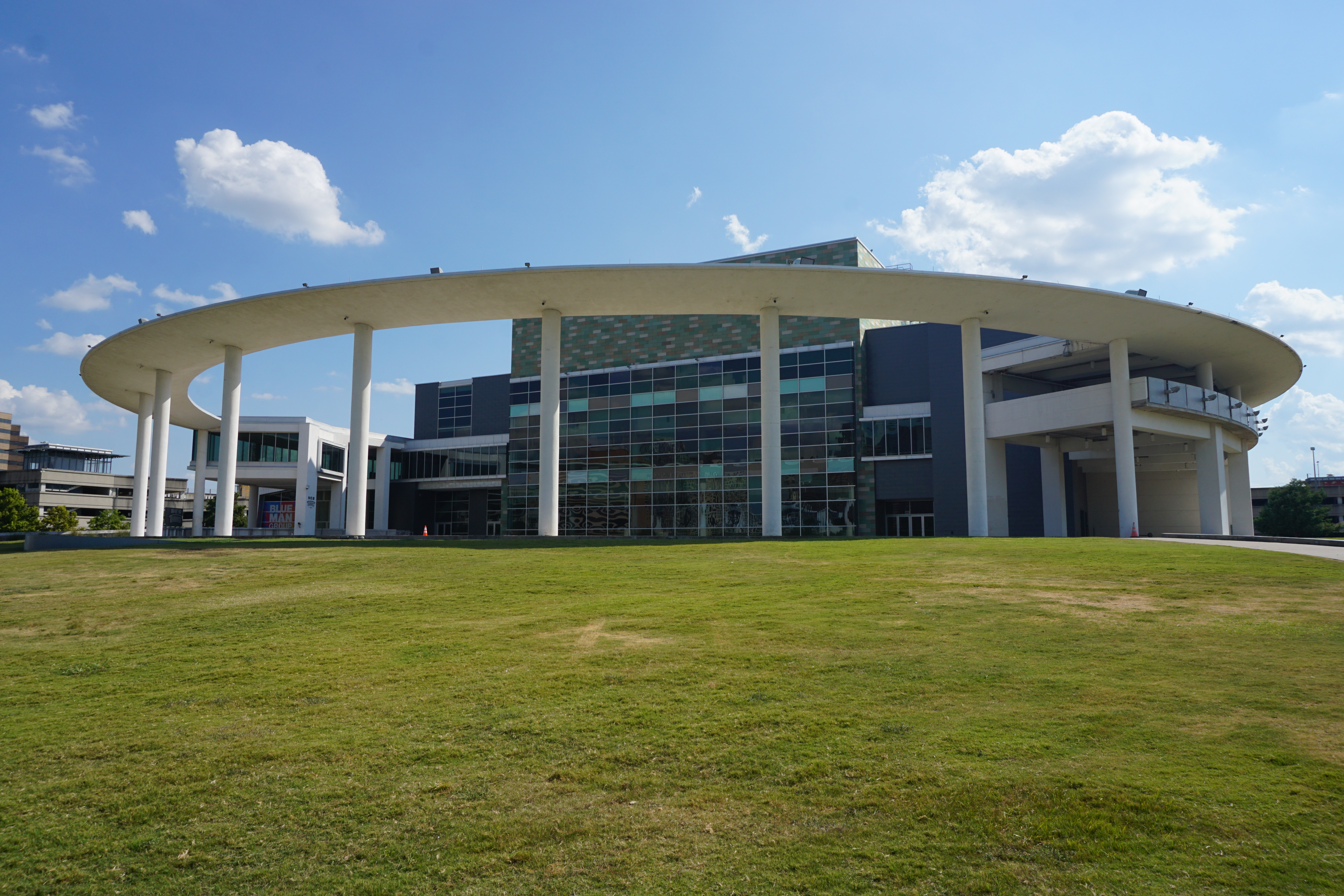 The Long Center for the Performing Arts in Austin, Texas (United States).